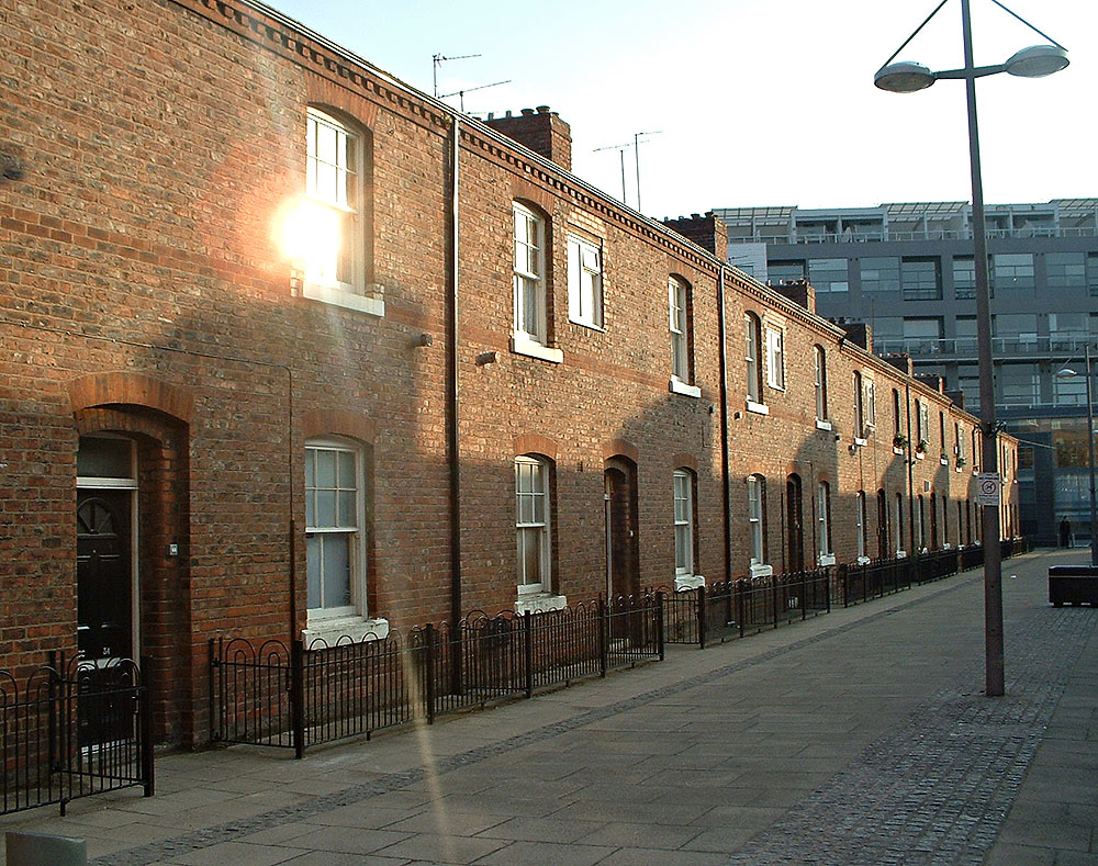 A street in the Ancoats area of Manchester, England.